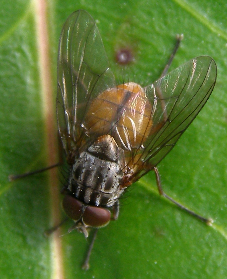 A male Phaonia subventa (Diptera: Muscidae). ID confirmed by Stephane Lebrun at .